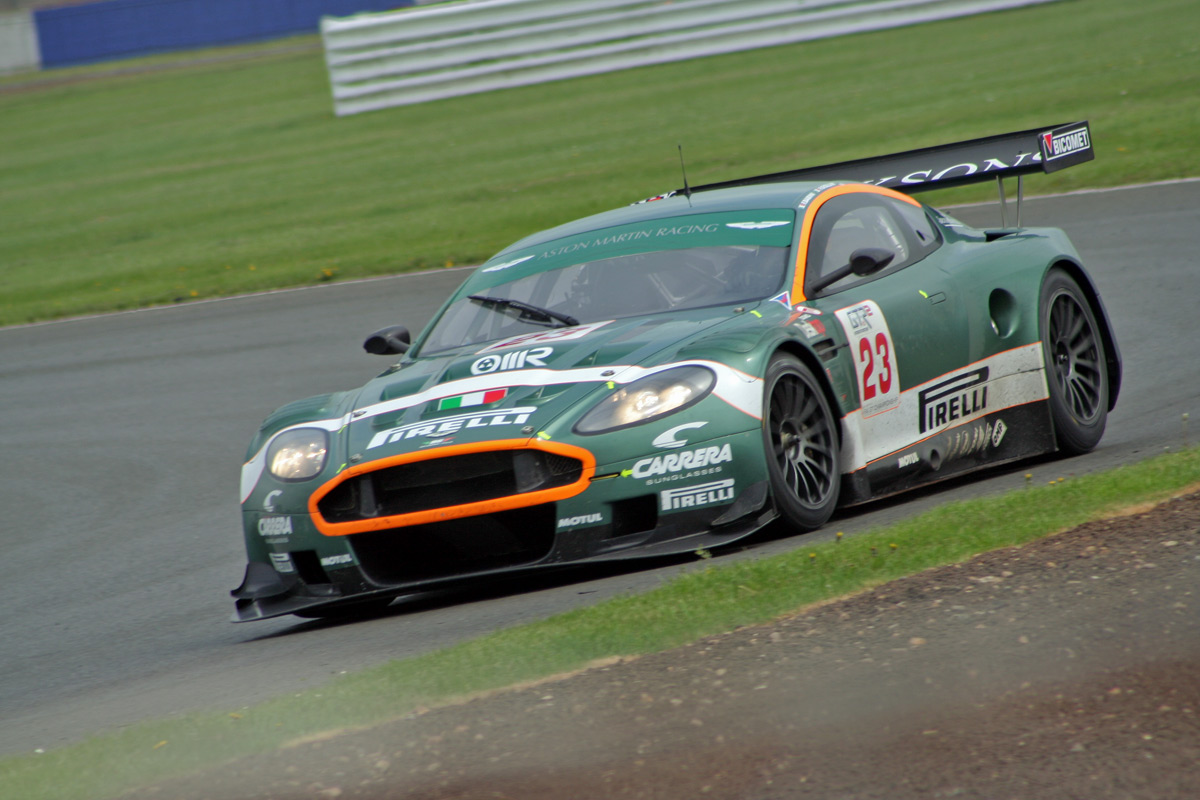 FIA GT Championship 7th May 2006 Silverstone